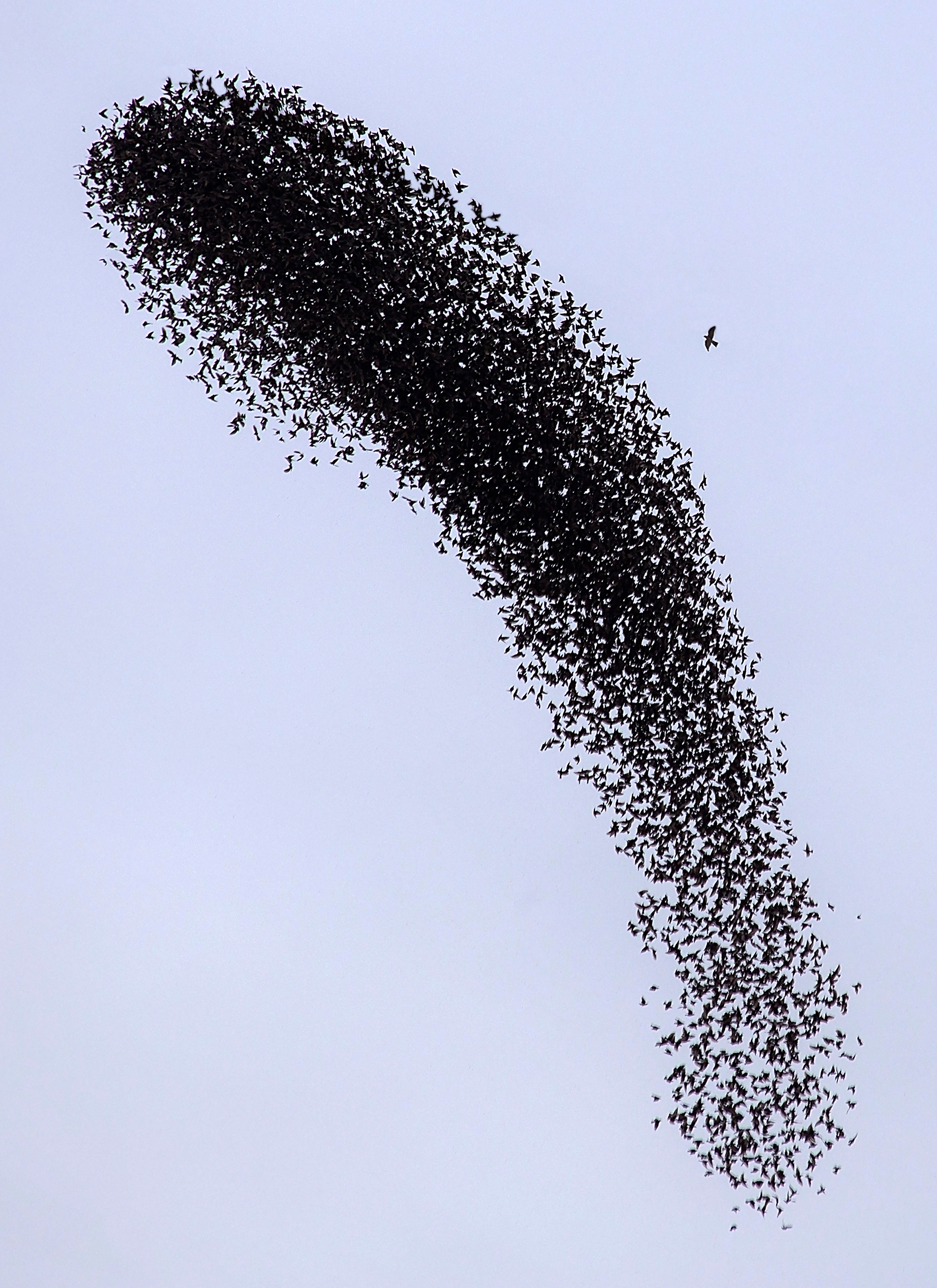 Starling flock with nearby predator. Digitally removed cable